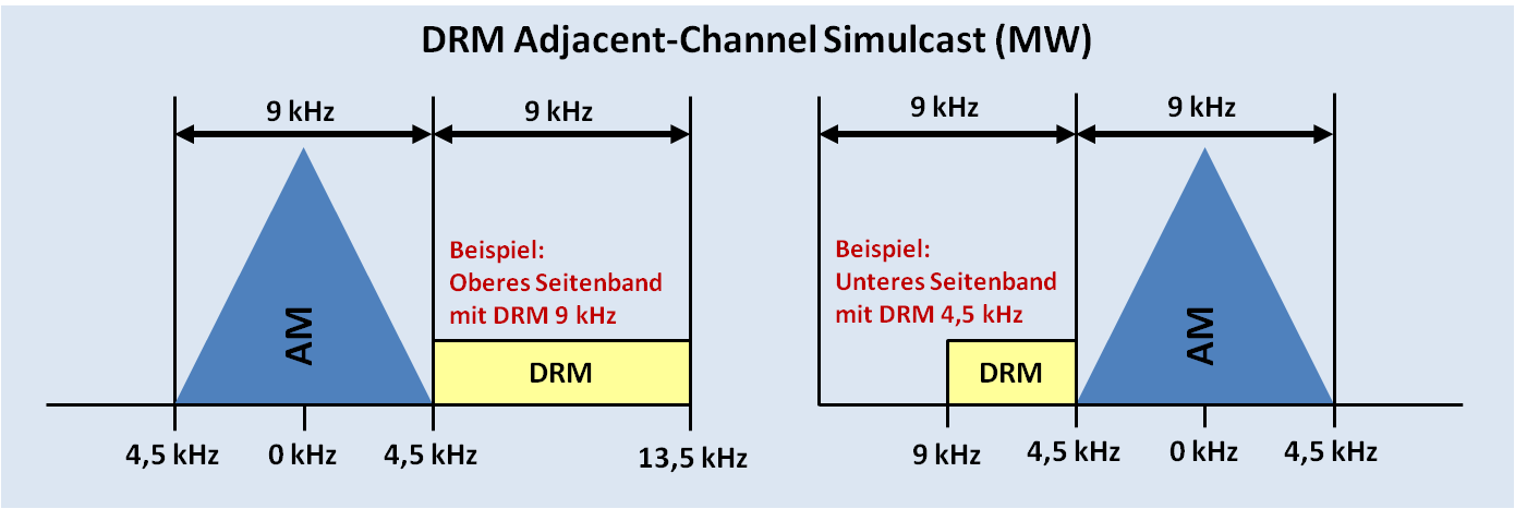 Digital Radio Mondiale - DRM-Adjacent-Channel-Simulcast